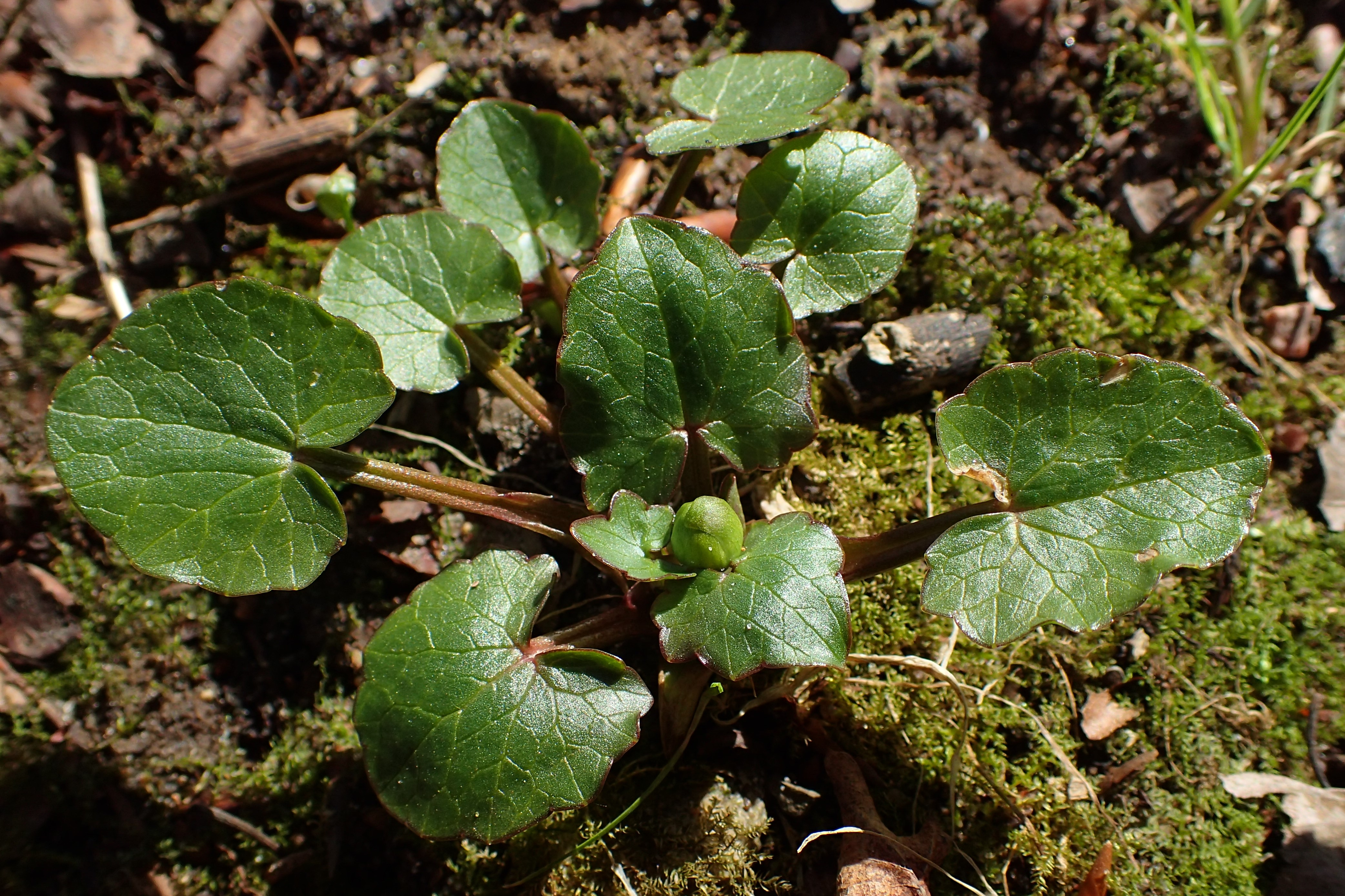 Ficaria verna subsp. verna (=bulbilifera) on Central Cementary (Cmentarz Centralny) in Szczecin (NW Poland)